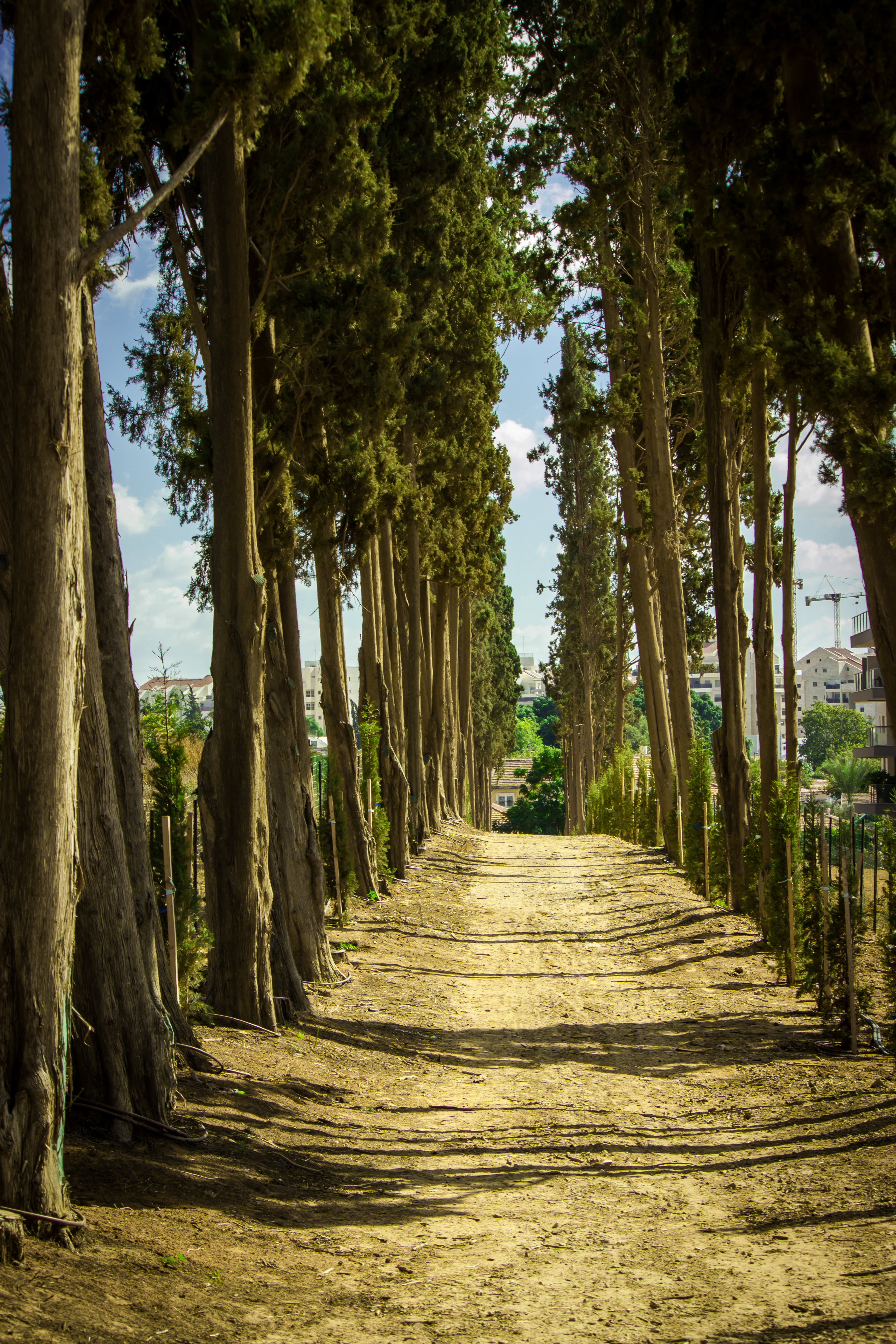 Baron de-Menashe Garden in Kfar Sava, Israel